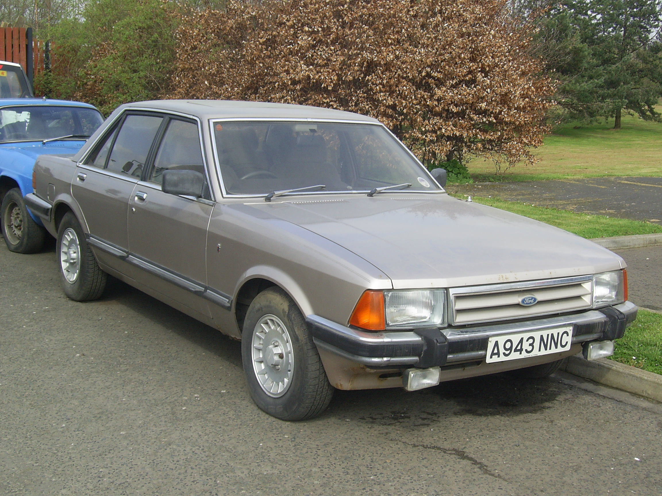 Ford Granada Mk2 2.8 Ghia, seen In Kelso